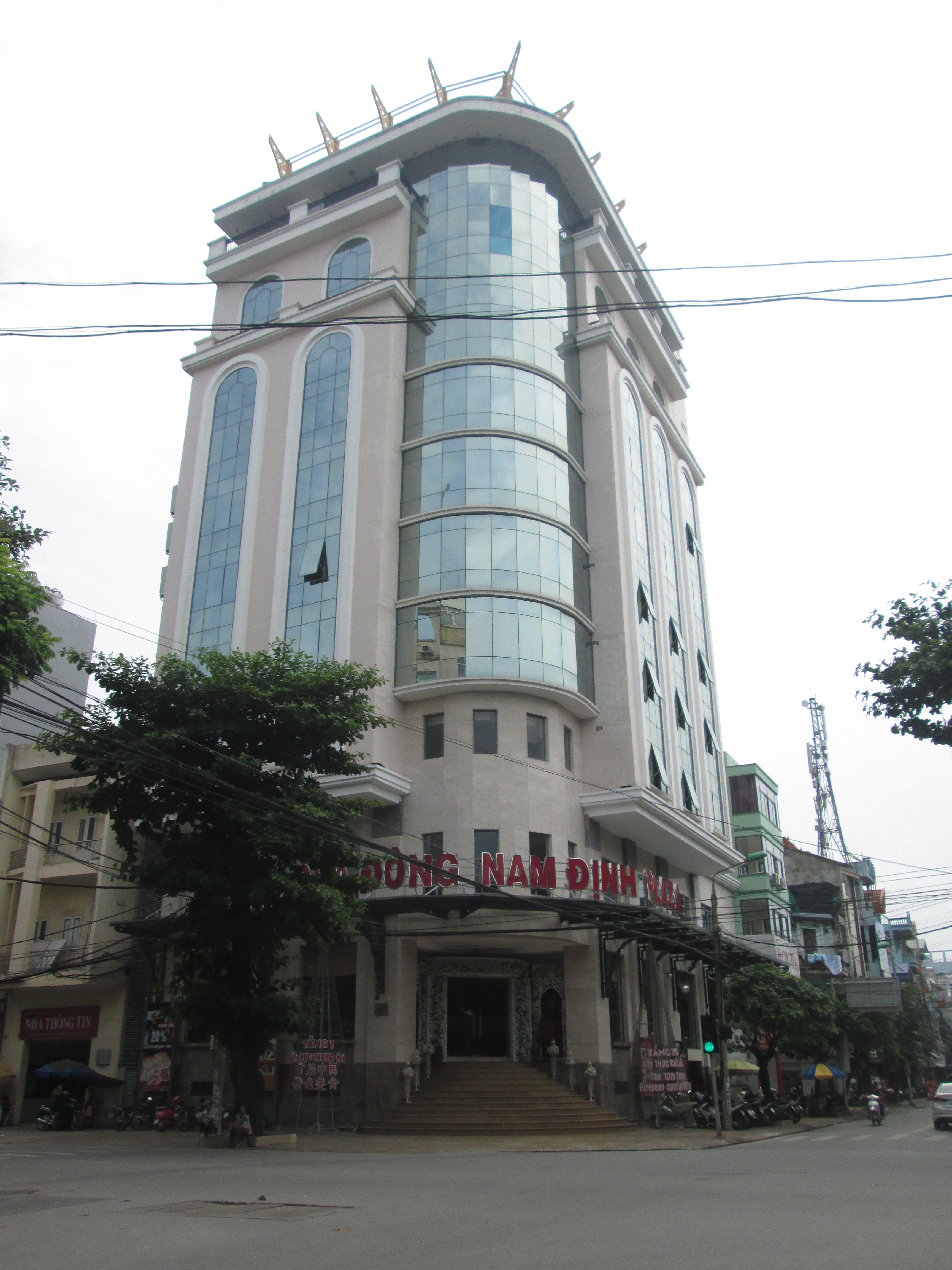 Cua Dong Nam Dinh Plaza, at 158 Tran Hung Dao Road, Nam Dinh City, Nam Dinh Province, Vietnam.